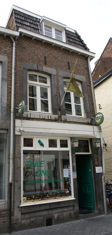 National monument no. 27840 - Rechtstraat 28, Maastricht, The Netherlands